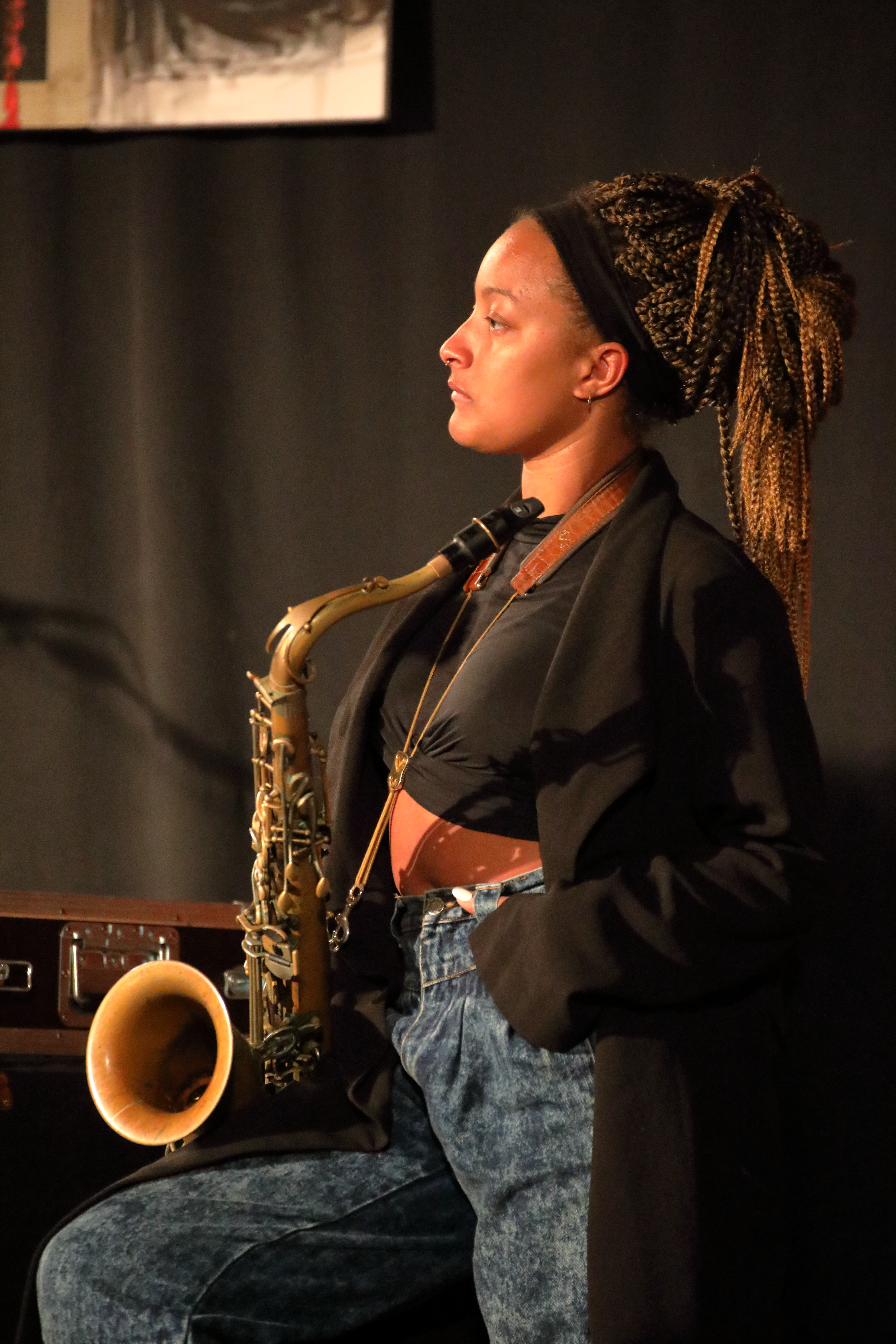 Saxophon player Nubya Garcia with Joe Armon-Jones at INNtöne Jazzfestival 2019.